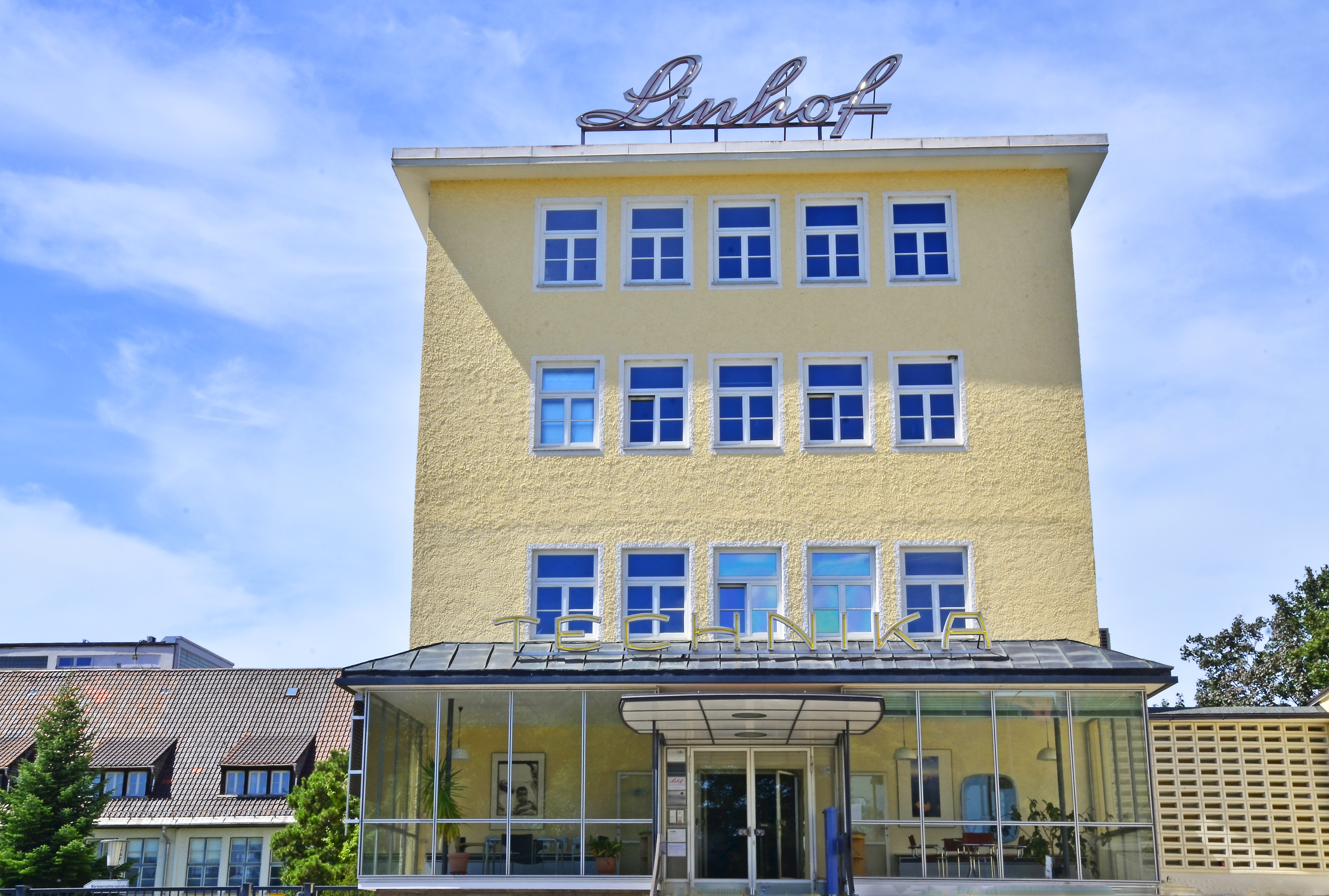 Main building of the Linhof Company in Munich (Rupert-Mayer-Straße 45)